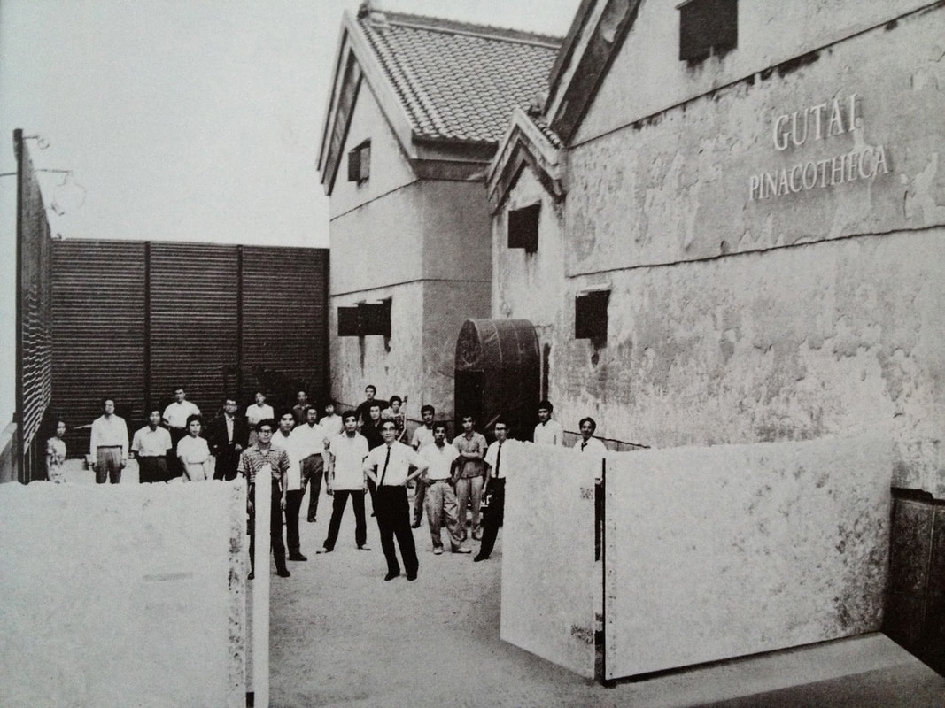 Gutai